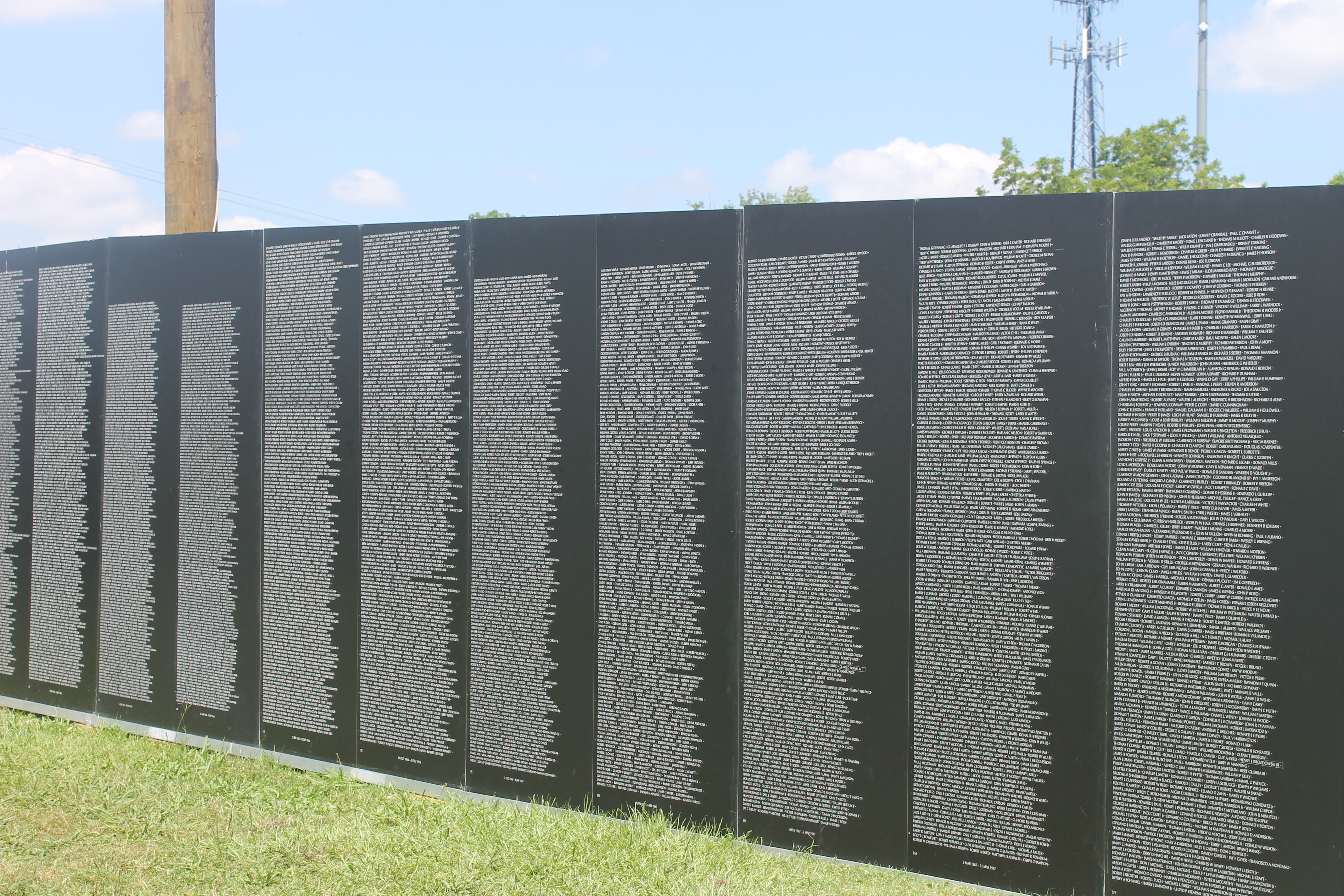 Traveling Vietnam Veterans Memorial Wall while in Vidalia, LA, in June 2015